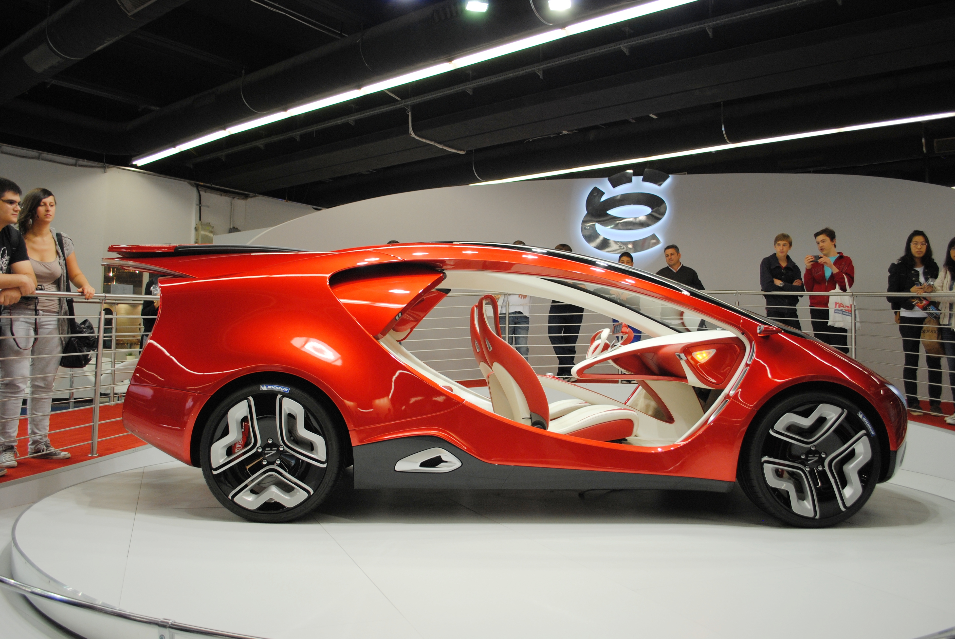 Yo-mobil in Frankfurt, Germany. IAA 2011.